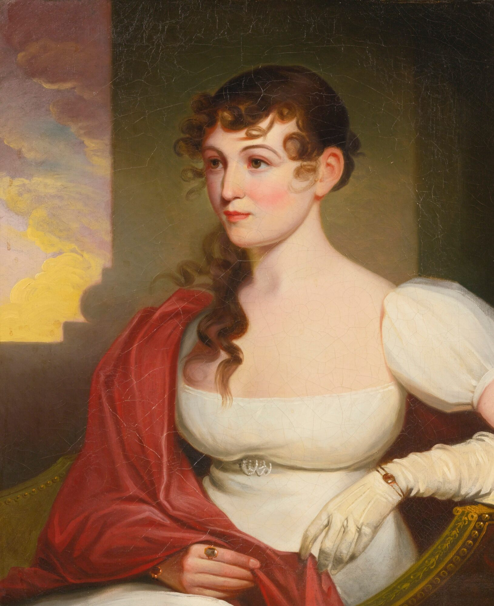 Jacob Eichholtz (1776 - 1842) PORTRAIT OF MRS. JOHN GIBSON Painted circa 1820, with a partial signature and date on the back. oil on canvas 29 in. by 24 1/2 in.